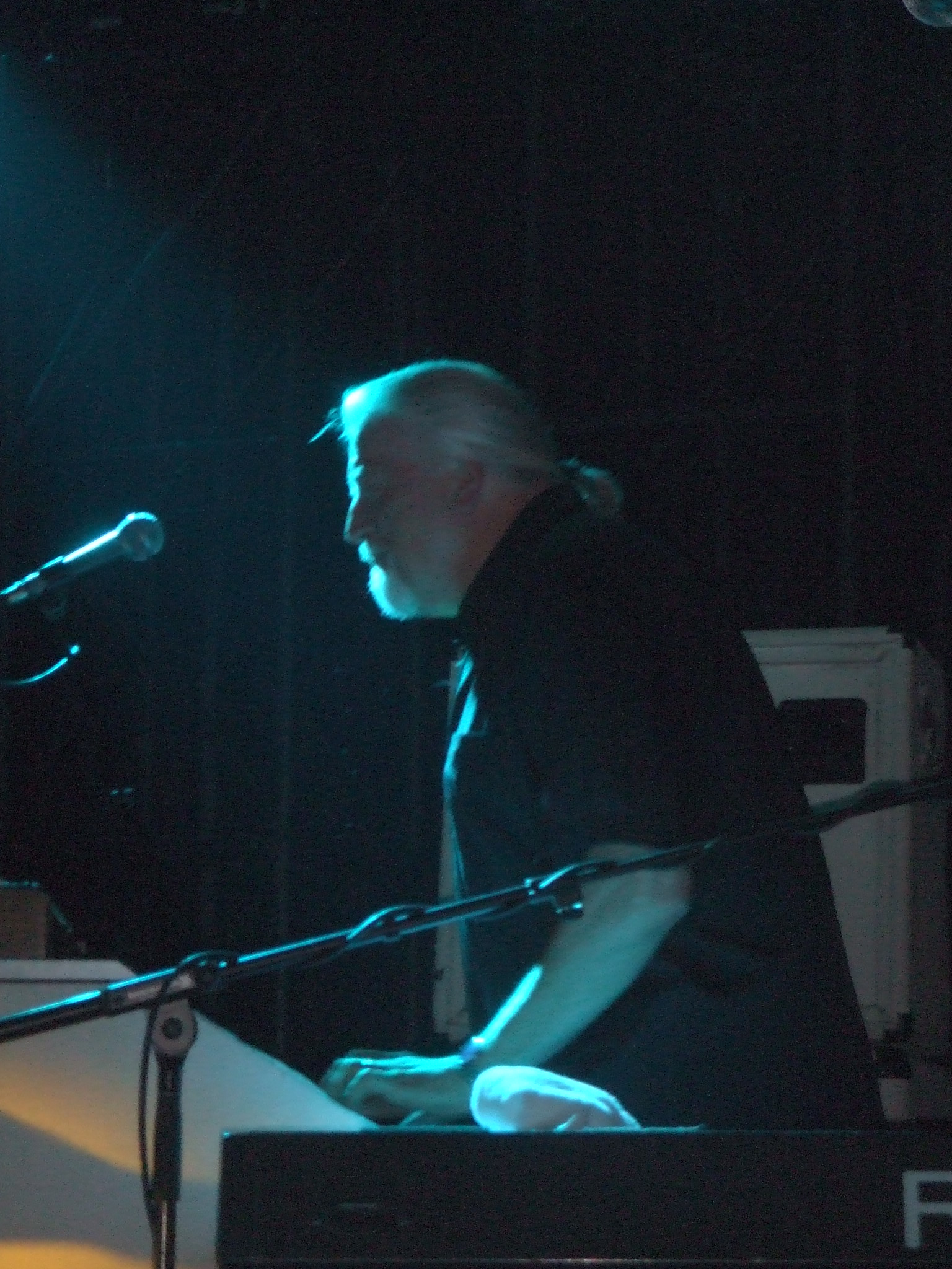 Jon Lord at the Sunflowerjam, London, 2007.